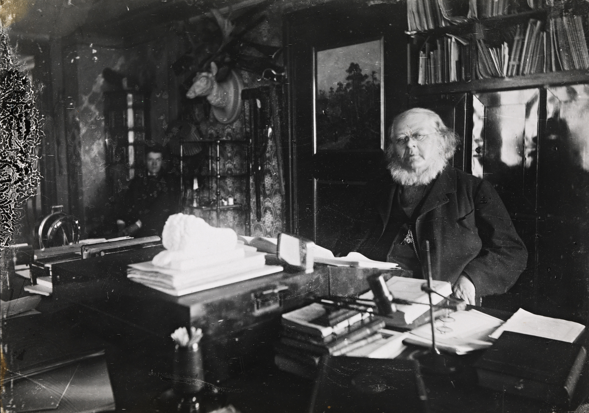 Tittel / Title: Peter Christen Asbjørnsen i sitt arbeidsværelse i Rosenborggata Dato / Date: ukjent / unknown Fotograf / Photographer: O. Væring Sted / Place: Oslo, Rosenborggata Eier / Owner Institution: Nasjonalbiblioteket / National Library of Norway Lenke / Link: Bildesignatur / Image Number: blds_03637